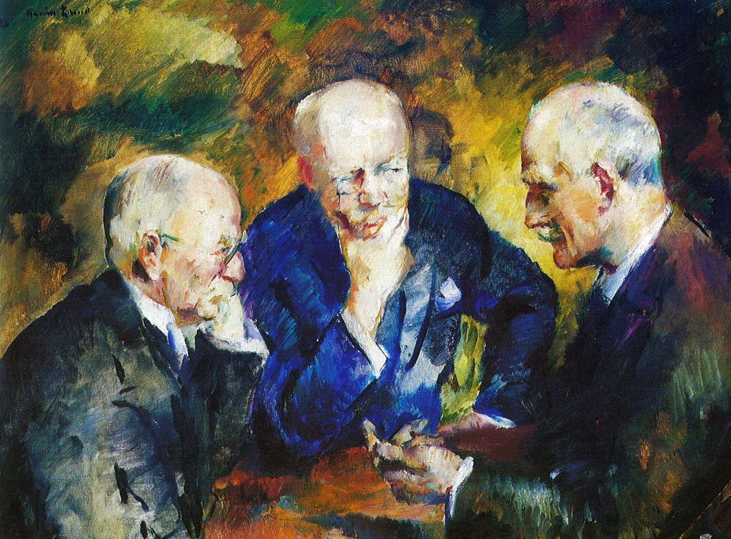 Depicted people: Christian Sinding, Gunnar Heiberg and Knut Hamsun